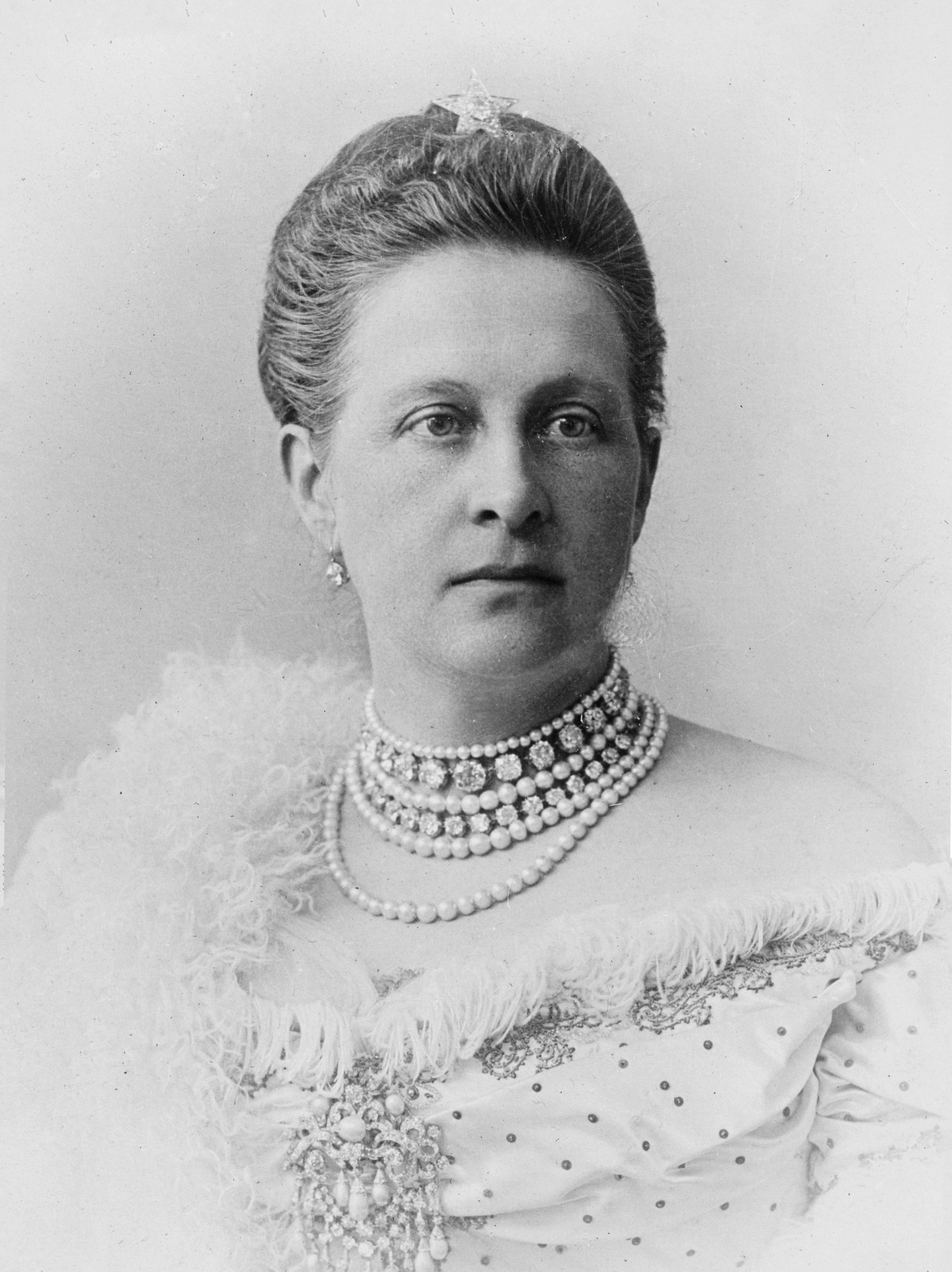 Queen Olga of Greece (Queen Consort of King George I of Greece till 1913)